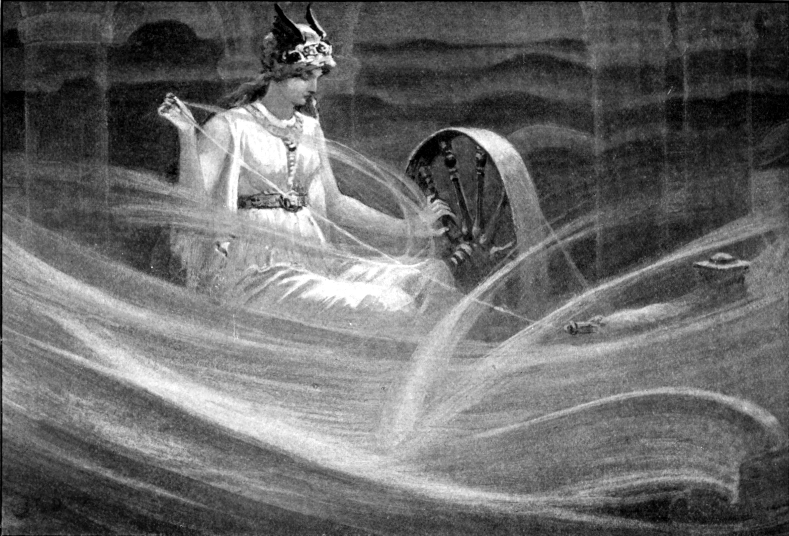 Frigga Spinning the Clouds (the title given to the work in the list of illustrations on page vii)